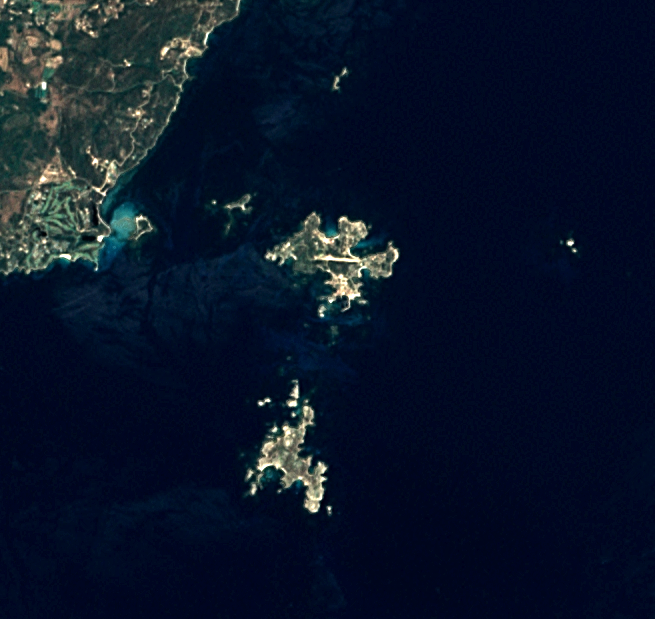 The Lavezzi archipelago, located southeast of mainland Corsica (France). This satellite view was acquired by Landsat 7. The two main islands are Cavallo, on the center, and Lavezzo (or Lavezzu), on the south. The other islands or islets are, from left to right : Piana, Ratino, Porraggia and Sperduto.